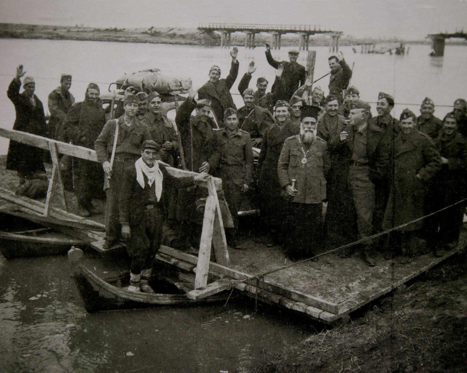 Metropolitan Joachim (Aposτolidis) with guerillas of Greek People's Liberation Army in midstream, Western Macedonia